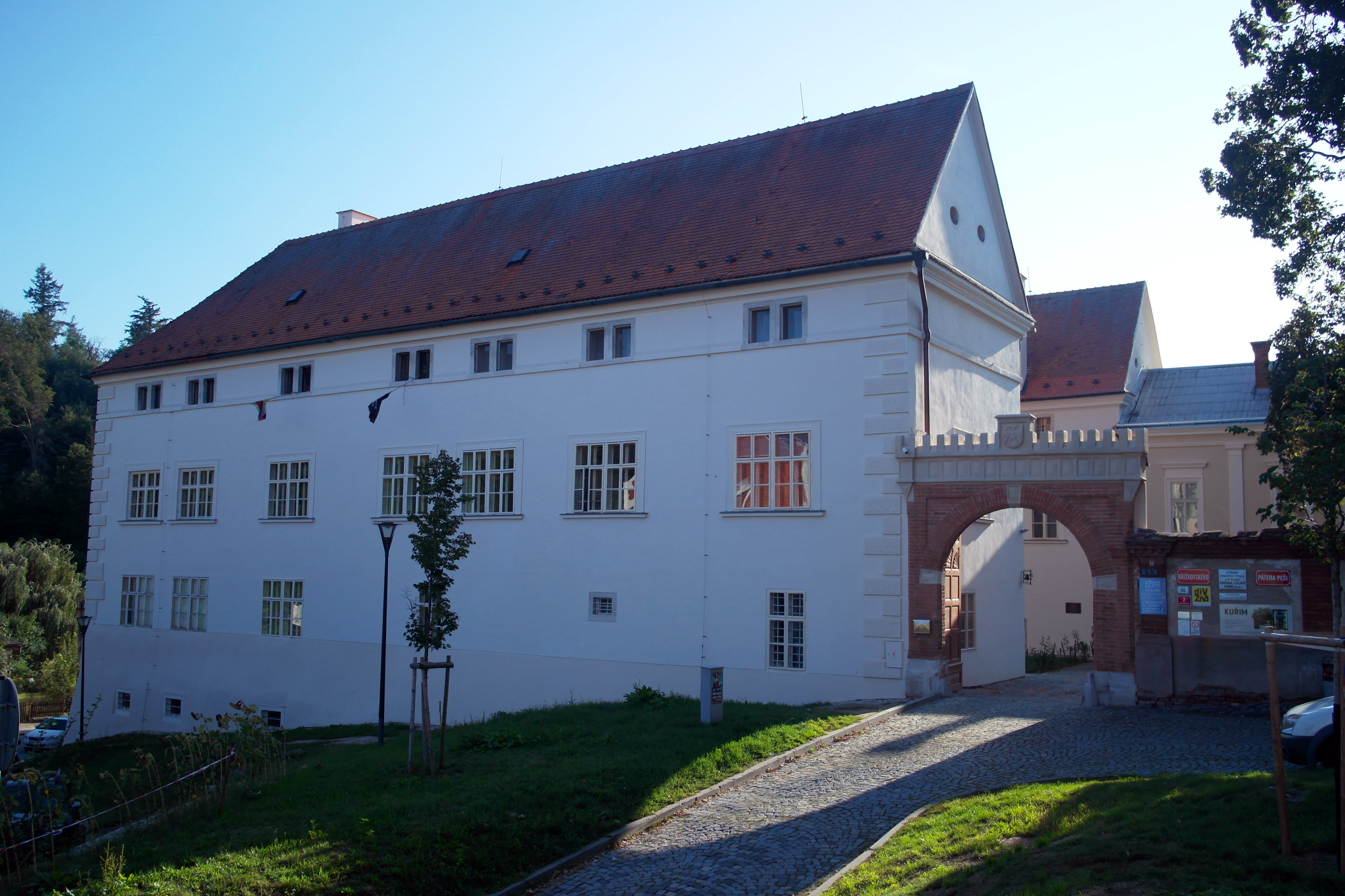 Castle chateau Kuřim